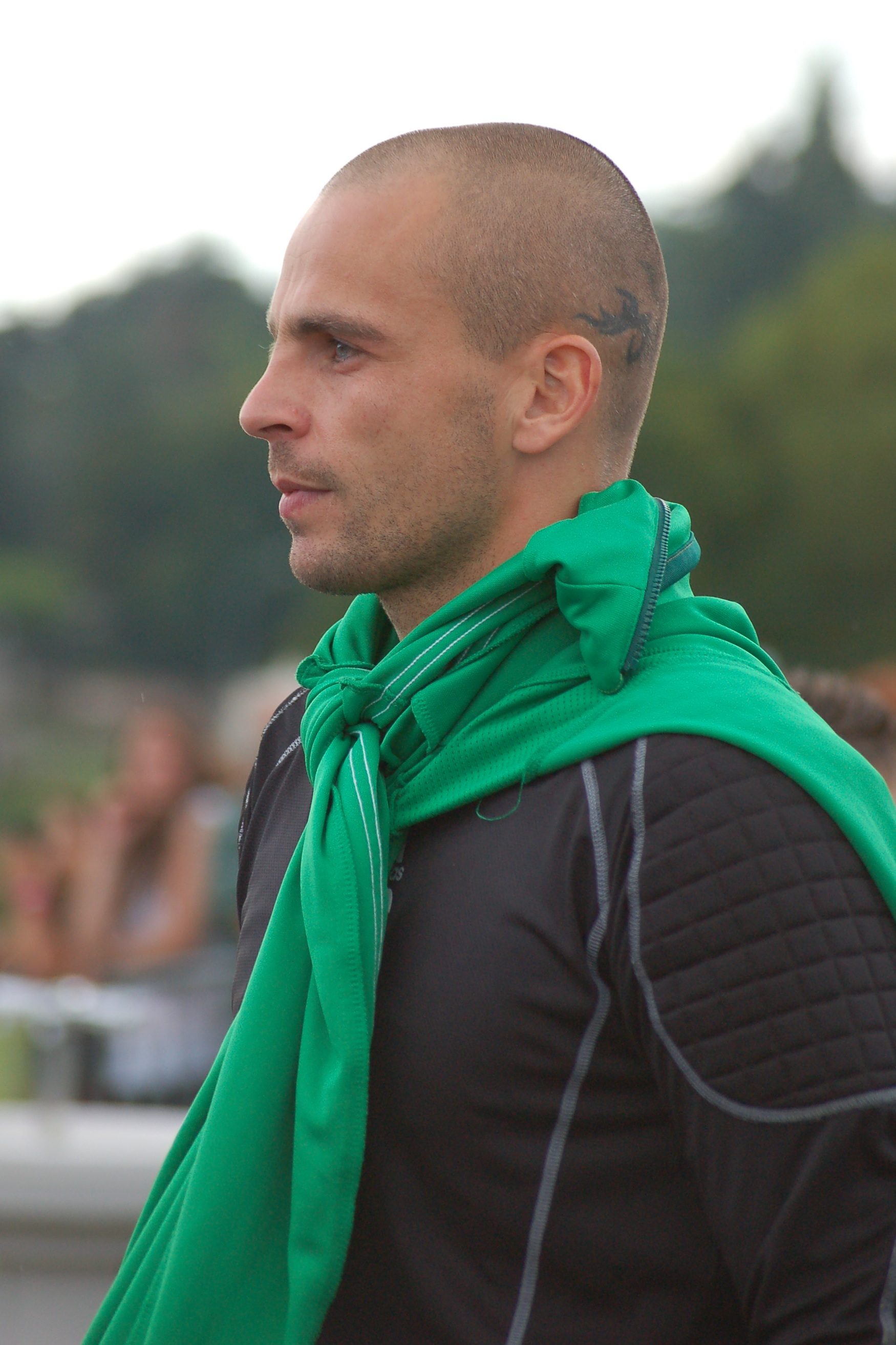 Football player Jeremie Janot training with AS Saint-Etienne, on August 3rd, 2011 (L'Etrat, France).